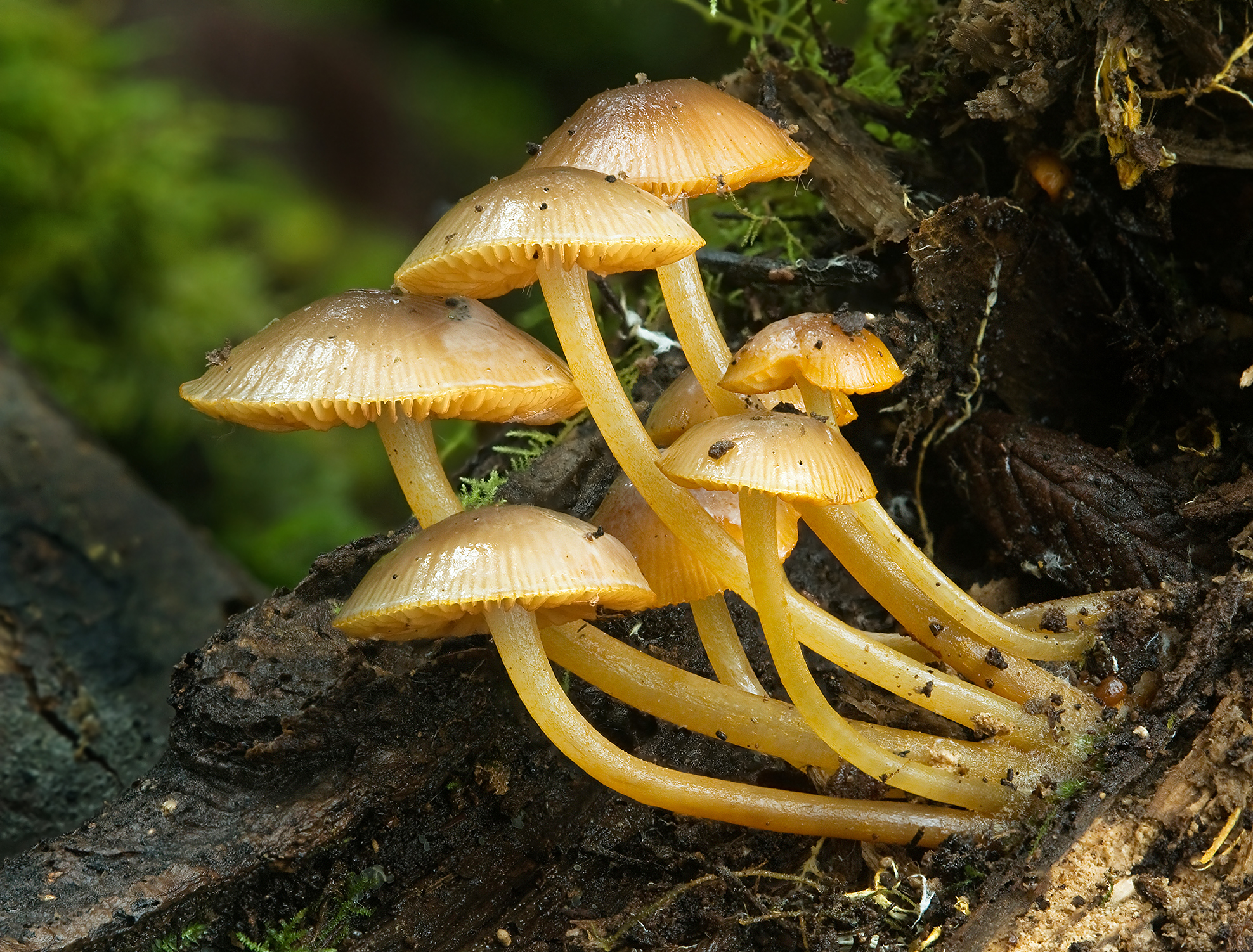 Mycena leaiana var. australis. Picture taken in Mount Field National Park, Tasmania, Australia.